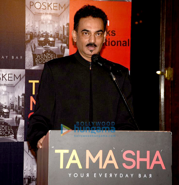 Rodricks at the launch of his book Poskem: Goans In The Shadows in Mumbai.